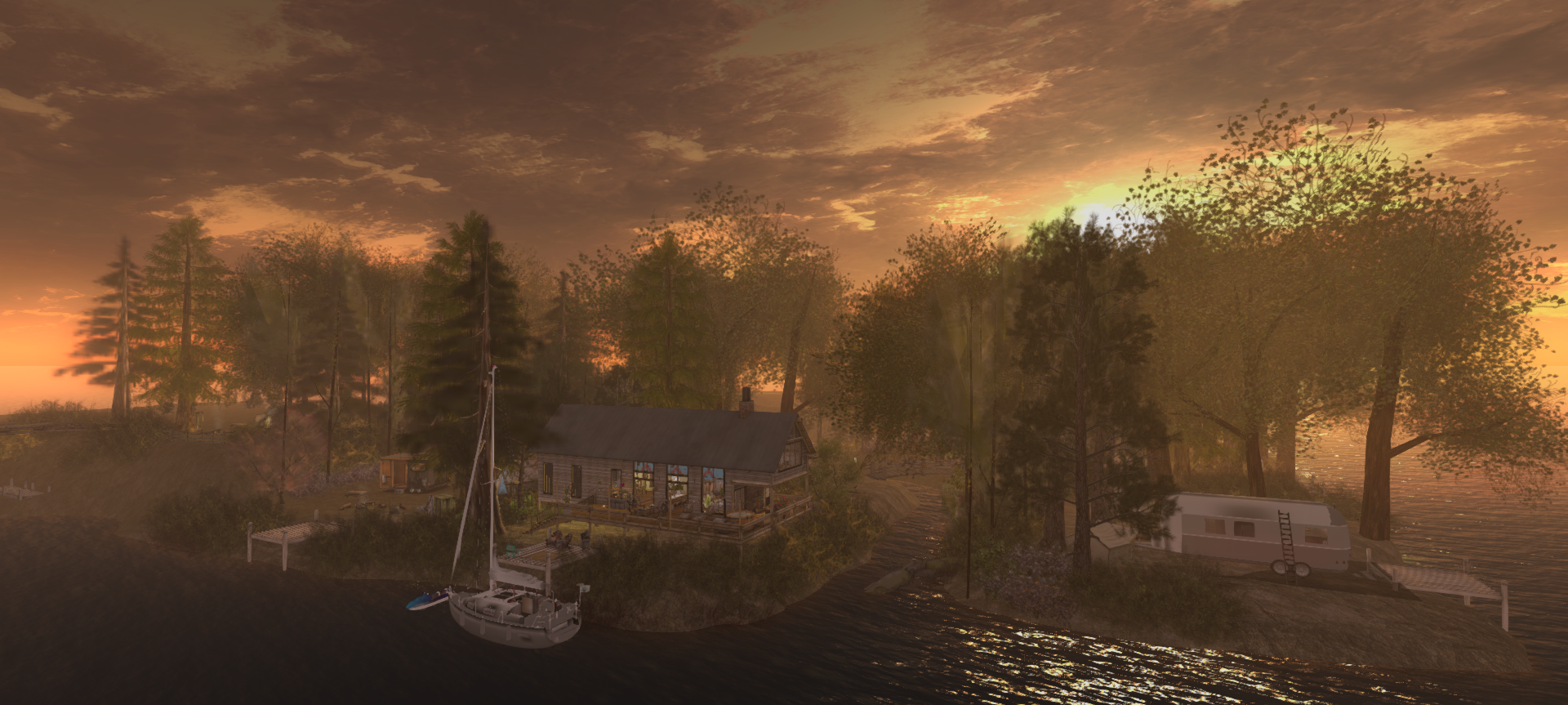 Second Life image by viewer Black Dragon